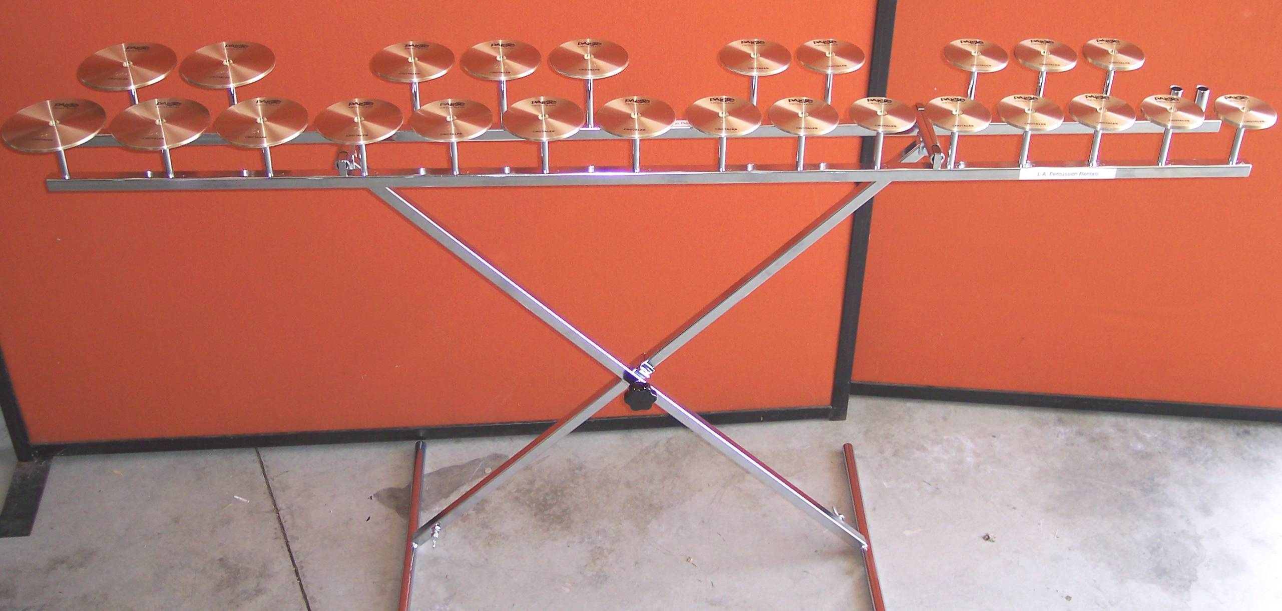 Paiste brand crotales on stand. C6-C8